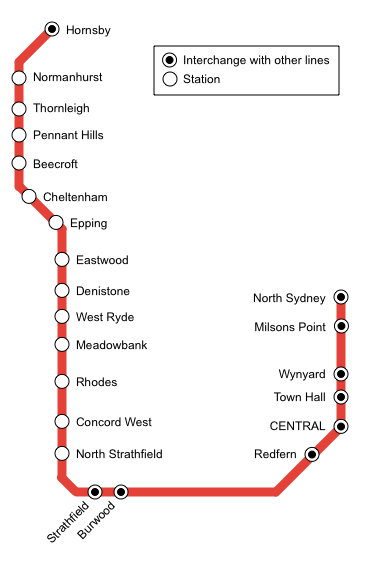 Northern Line of the CityRail network in Sydney, Australia